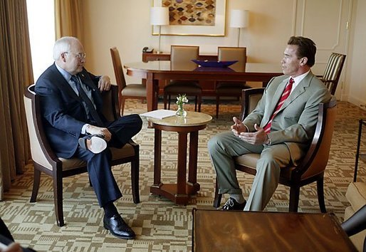 Vice President Dick Cheney talks with California Governor Arnold Schwarzenegger in Los Angeles, Calif., Jan. 14, 2004. White House photo by David Bohrer